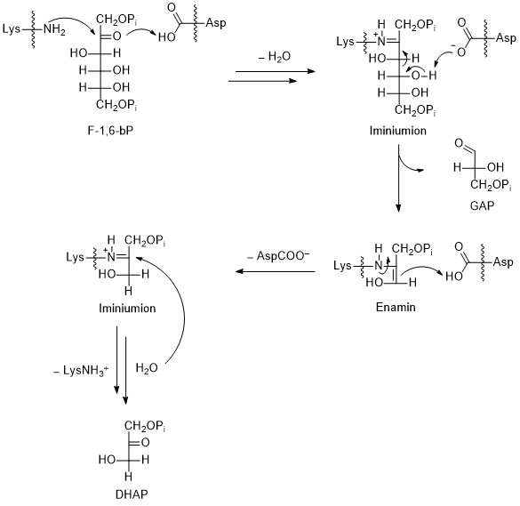 The half circles represent the active center of the enzyme.